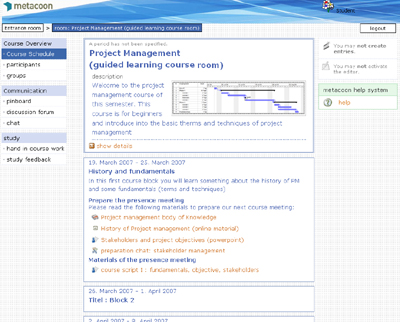 picture of a learning room